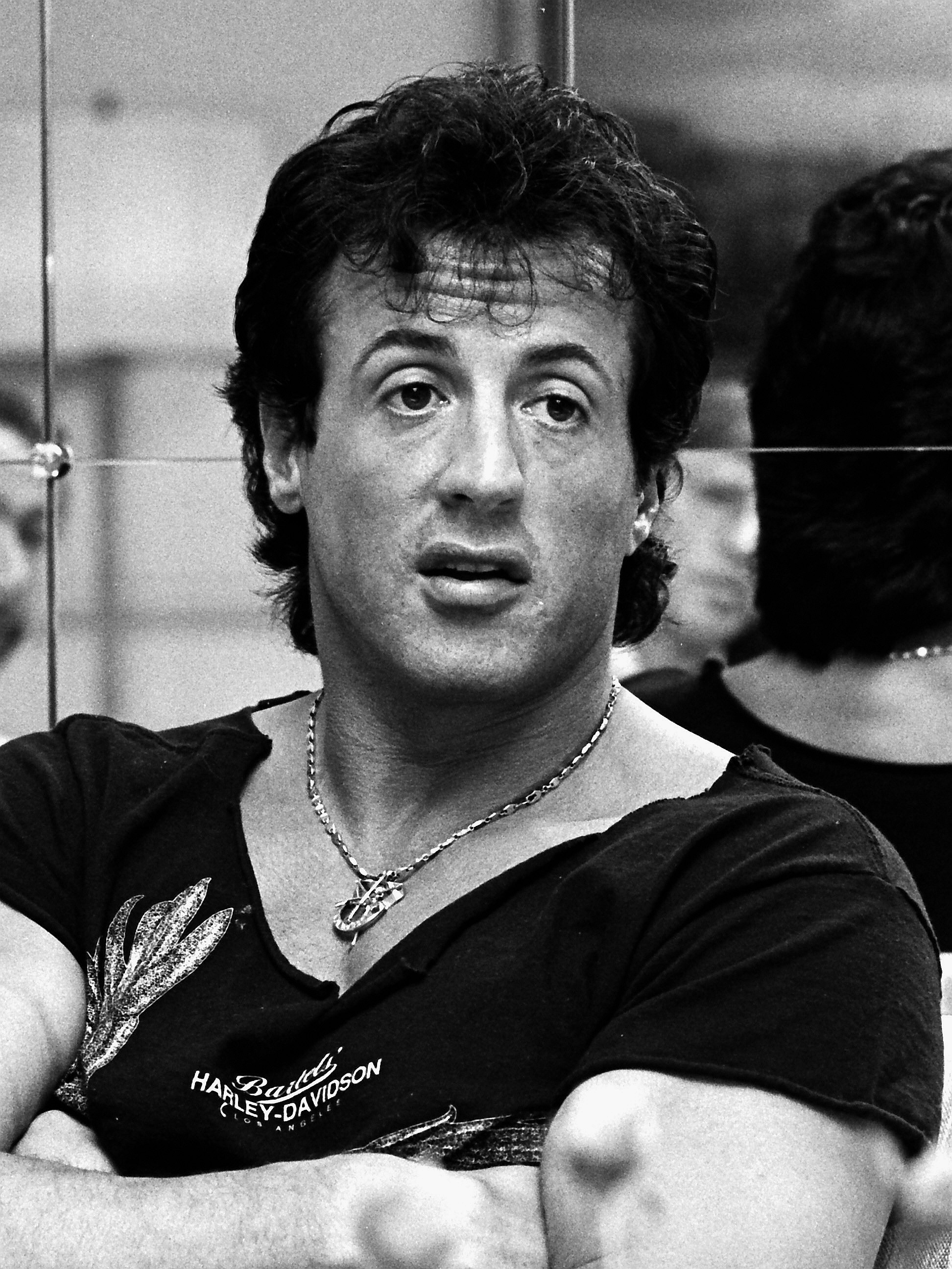 Sylvester Stallone in Sweden to promote "Rambo III"